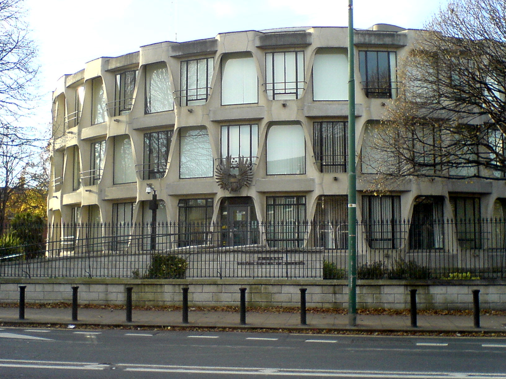 American Embassy, Dublin, Ireland.